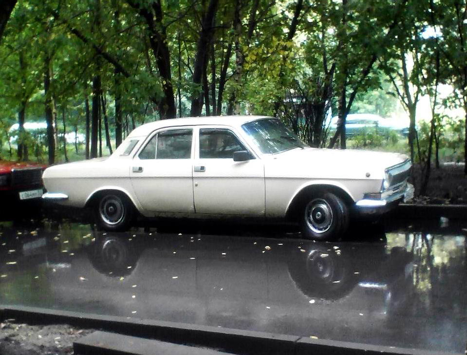 GAZ-24-10 Volga (early 1985-1986 model)